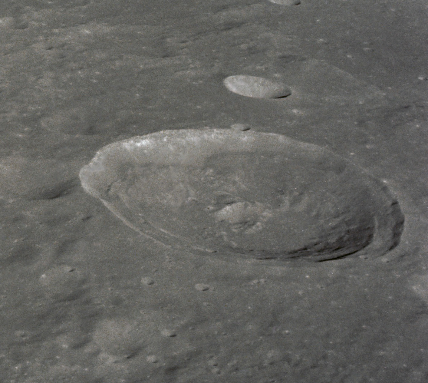 Herschel, cropped from original photo by Apollo 12 astronauts.